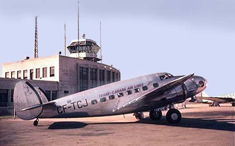 Trans Canada Airlines Lockheed 14H2 c. 1938 (CF-TCJ). created image with Photoshop using a photograph originally posted on:[1] covered by